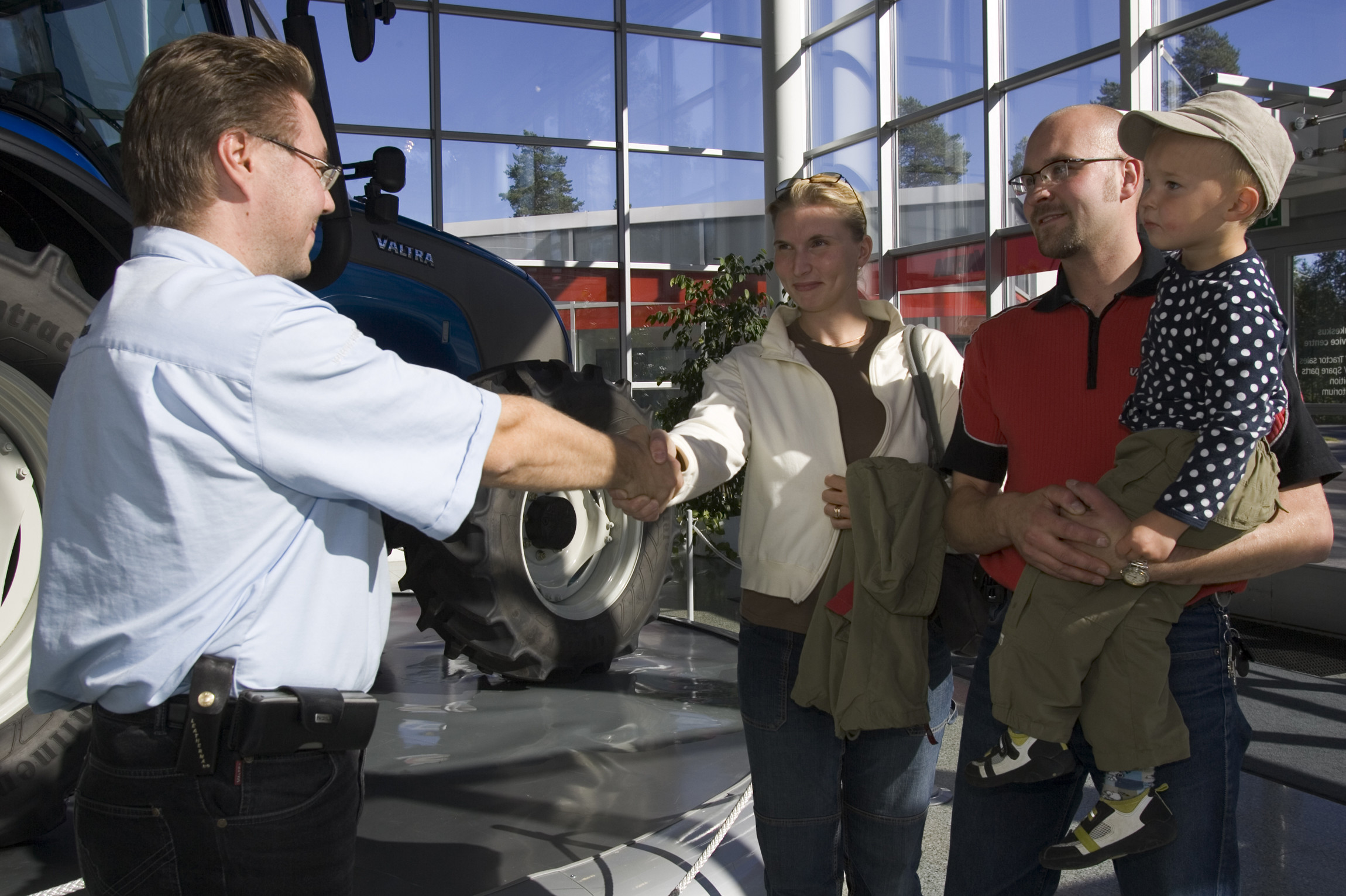 Customers are invited to visit and see their own tractor in production line in Suolalahti, Finland.